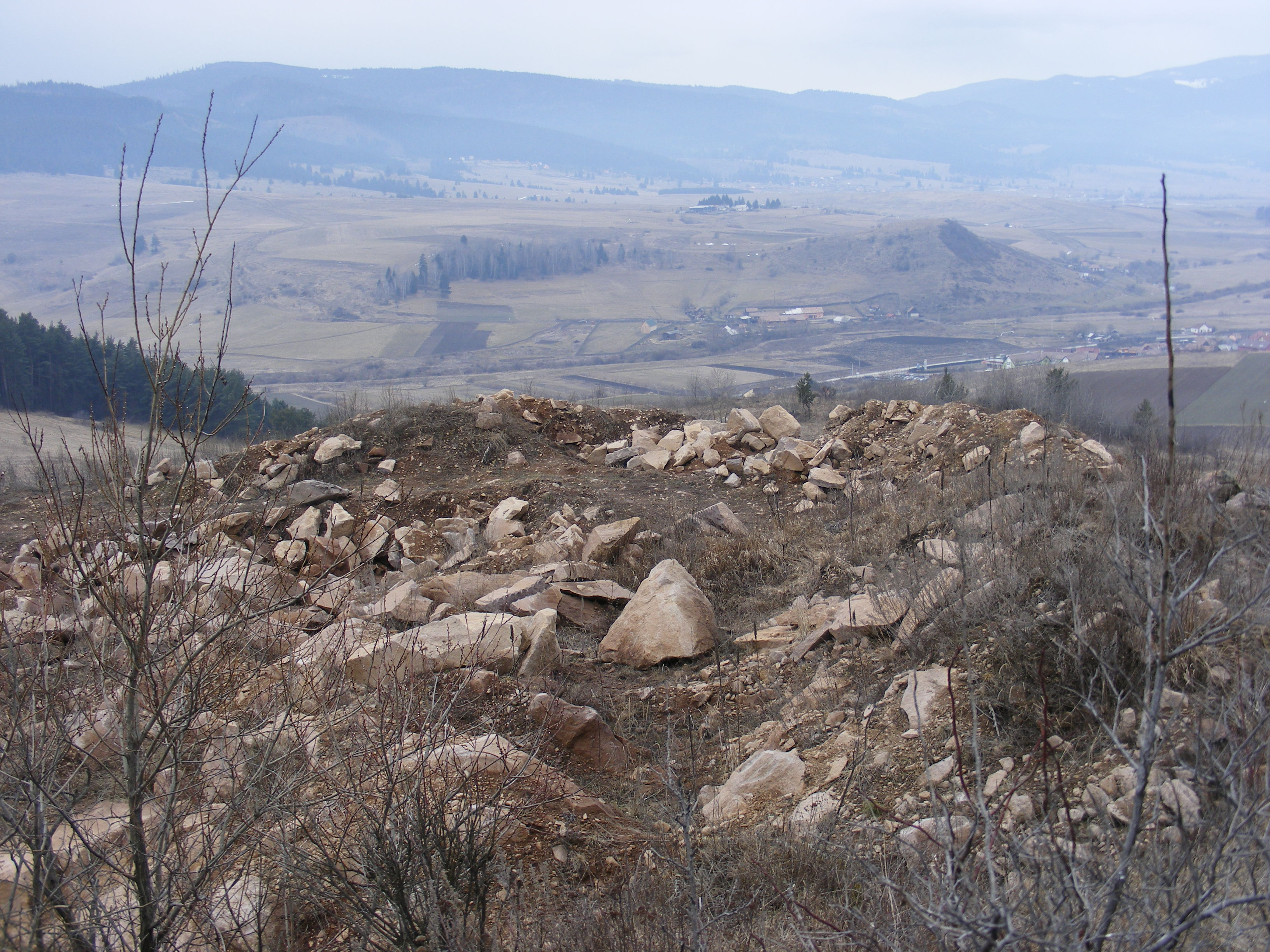 The ruins of Őrvár, near Csíkszereda